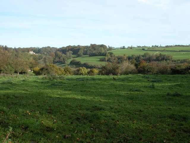 Gatcombe Park viewed from a bridleway to the north-west of the village of Avening.